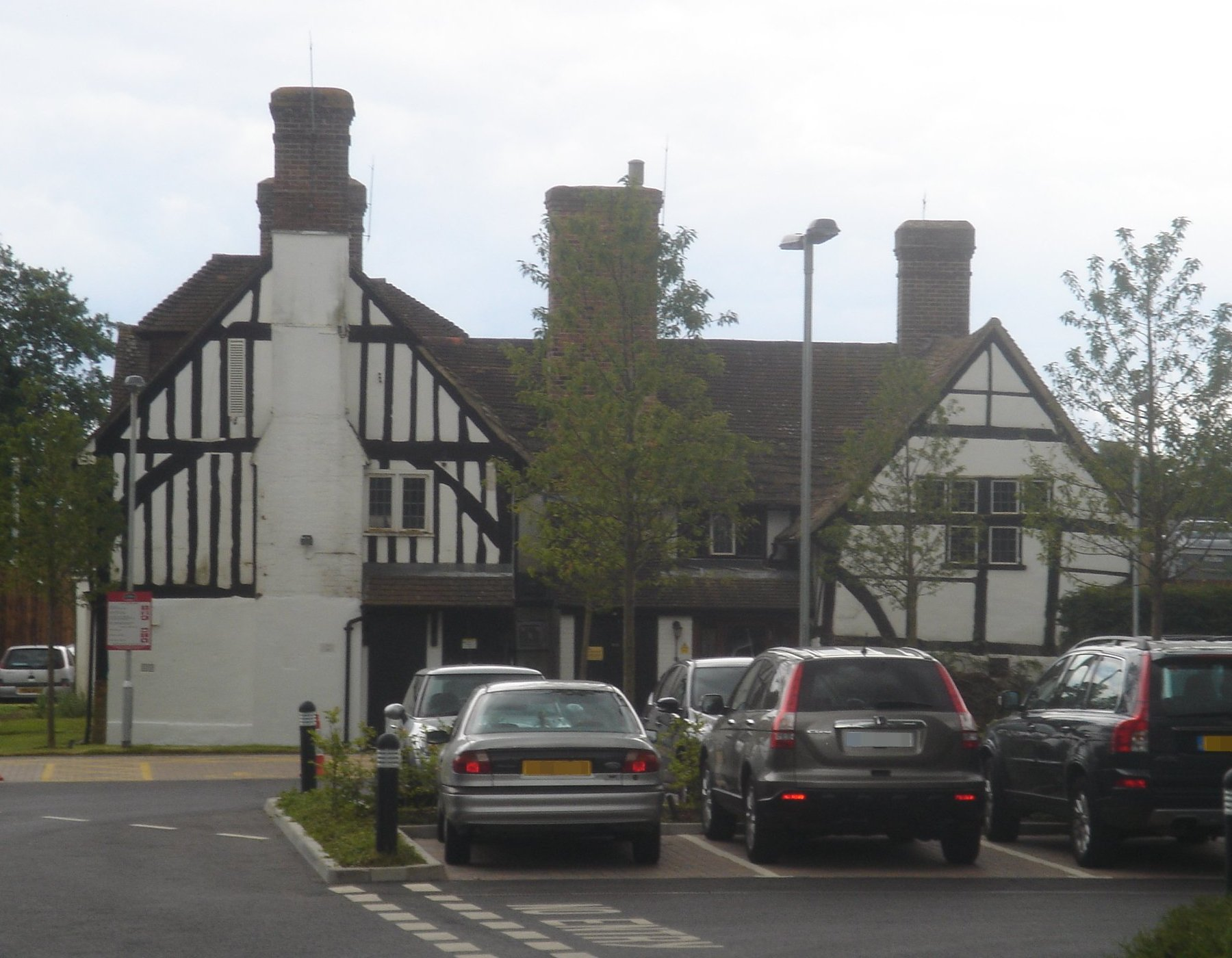 Edgeworth House and Wing House, Buckingham Gate, Gatwick Airport, now within the neighbourhood of Pound Hill, Crawley, West Sussex, England. Two joined houses of the 15th and 16th centuries respectively, formerly on the Balcombe–Horley road but now within the boundary of Gatwick Airport. Both listed separately at Grade II by English Heritage (IoE Code 363323 and IoE Code 363324 respectively)